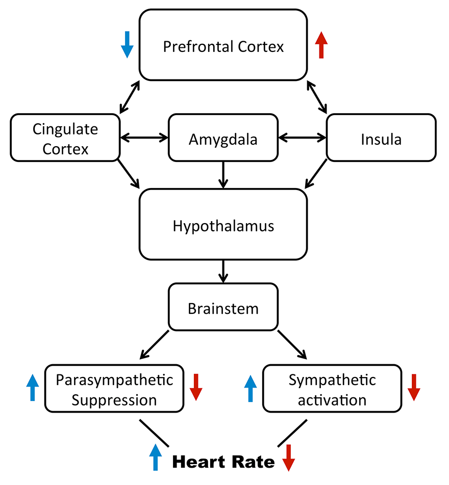 A simplified depiction of the neurovisceral integration model described by Thayer and Sternberg (2006)